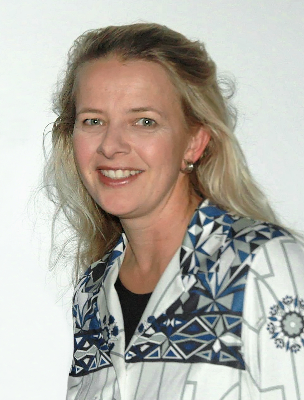 Princess Mabel of Orange-Nassau at Wikipedia 10th Anniversary party London